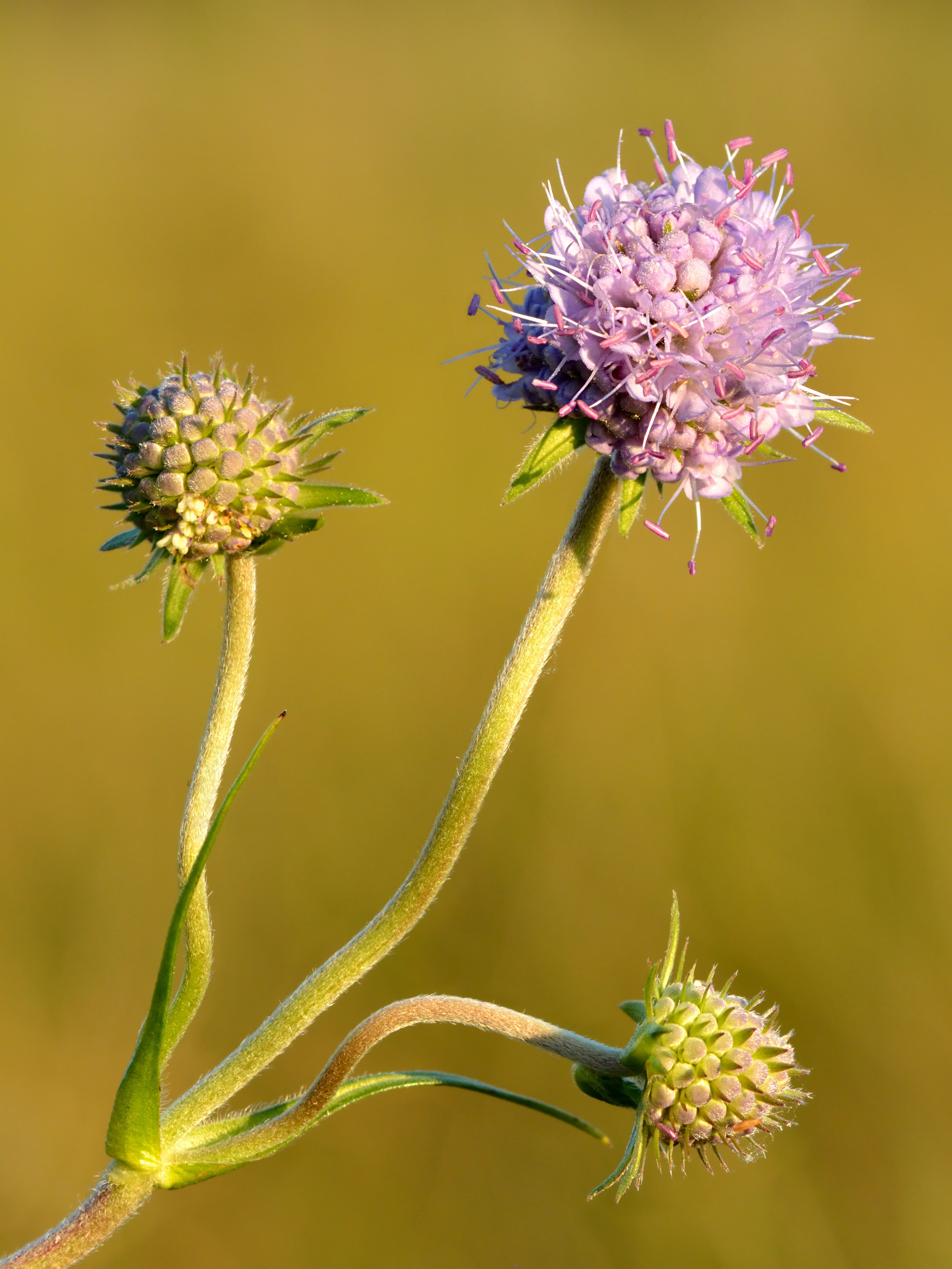 Devil's-bit scabious (Succisa pratensis). Niitvälja bog, Keila, Northwestern Estonia.